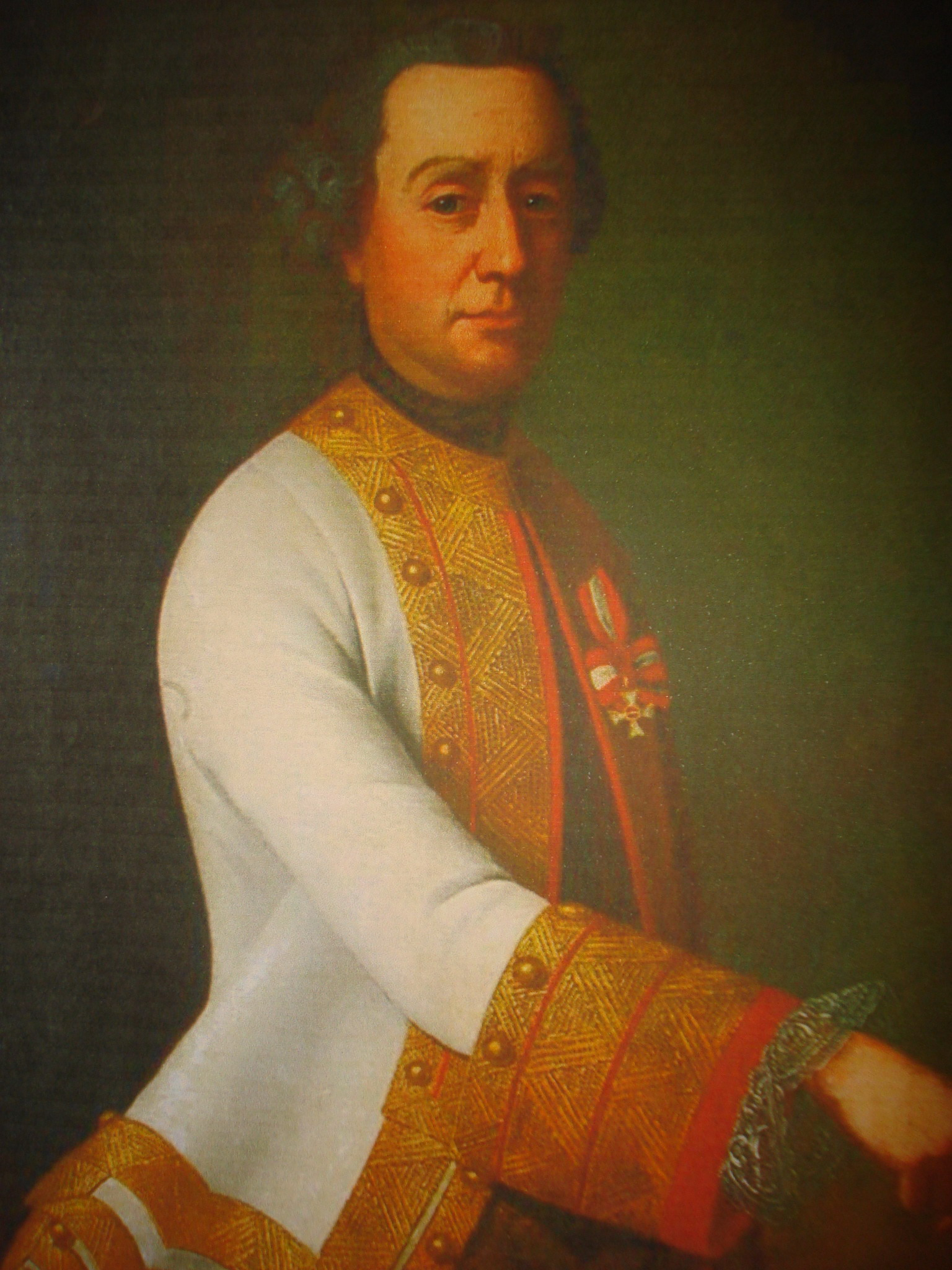 Count Josip Kazimir Drašković /Joseph Casimir Drashkovich/ (1716-1765), Croatian nobleman and general of the Habsburg Monarchy imperial armyHrvatski: Josip Kazimir grof Drašković (1716-1765), hrvatski plemić i general carske vojske Habsburške Monarhije